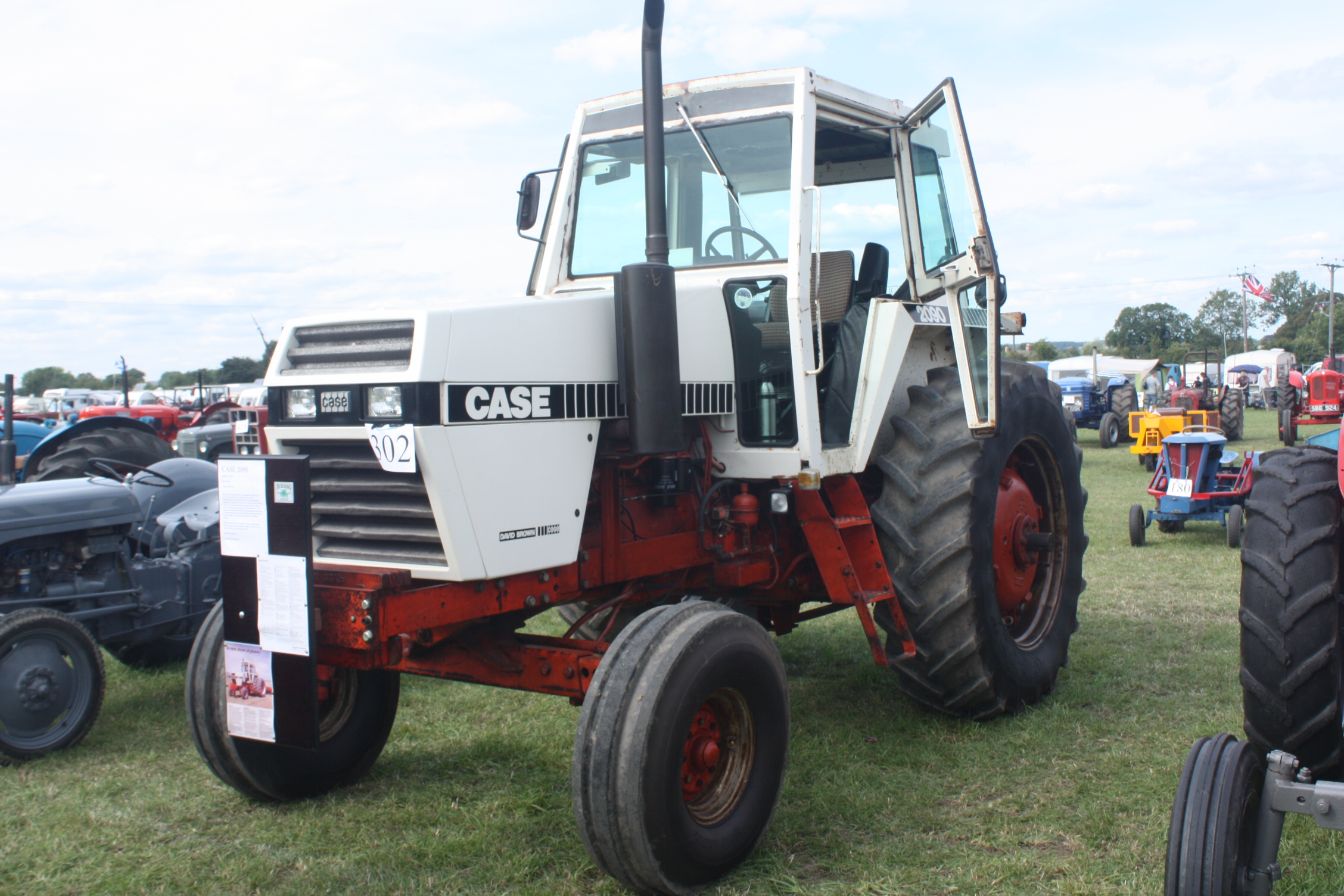 A Case 2090 tractor (a UK model from the late 1970s after the David Brown merger) at the Pickering Steam Rally 2009, Pickering, North Yorkshire, England